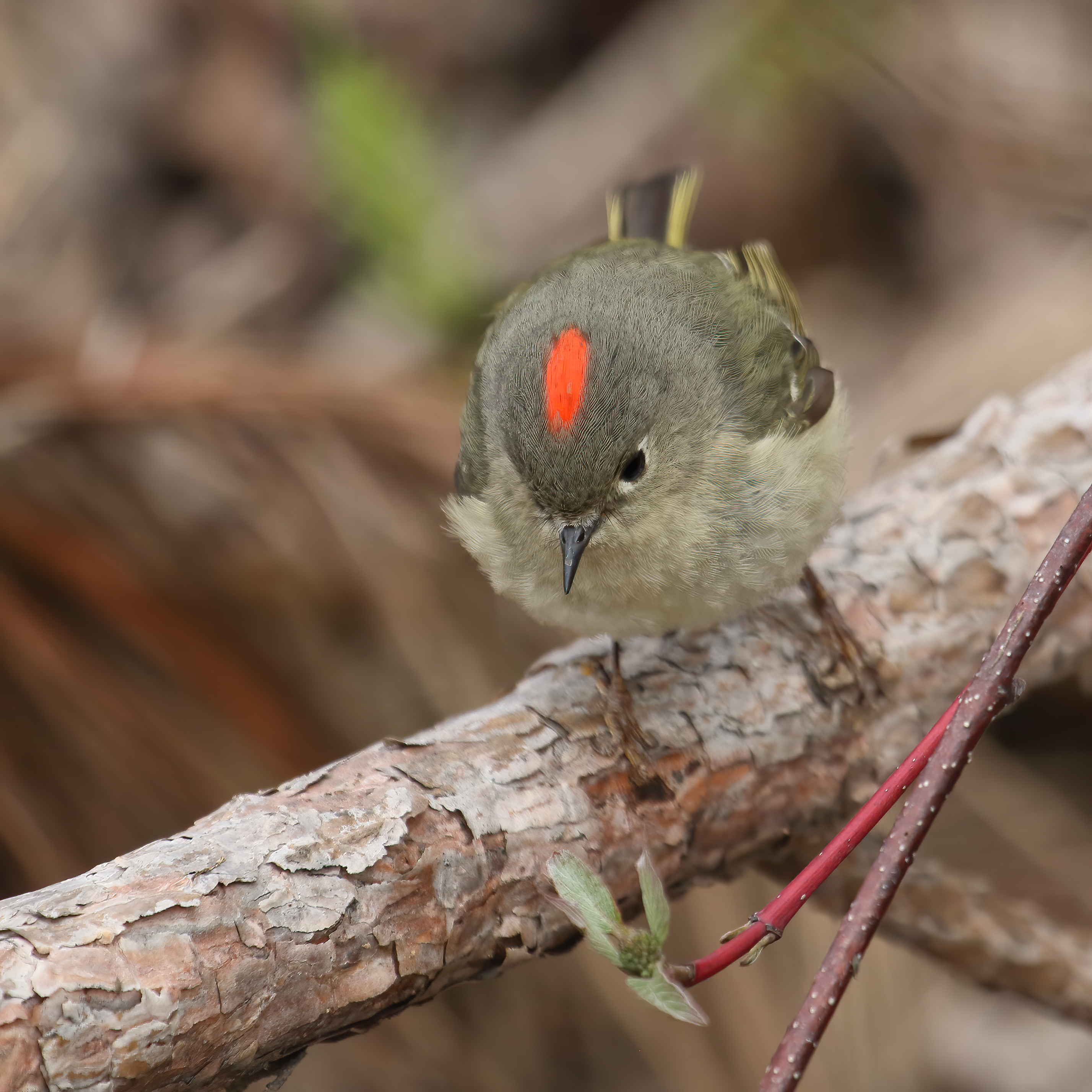 Ruby-crowned kinglet, Réserve naturelle du Marais-Léon-Provancher, Quebec, Canada